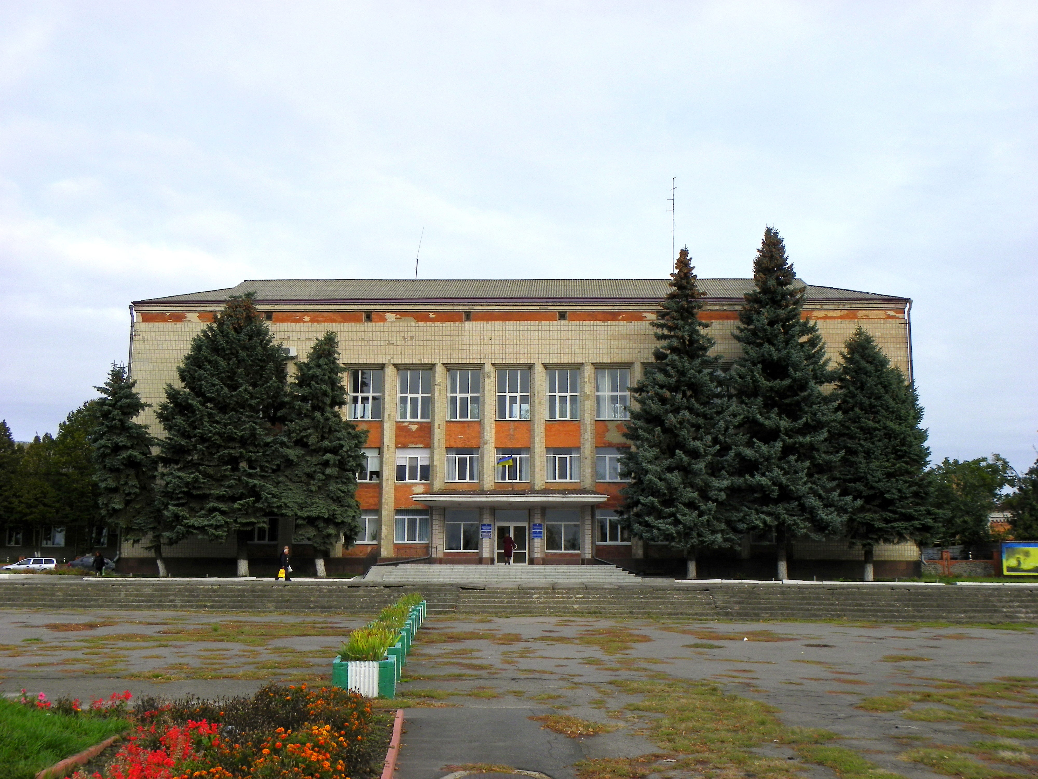 The house of the Pohrebyshche district authority, town of Pohrebyshche, Vinnytsa region, Ukraine.